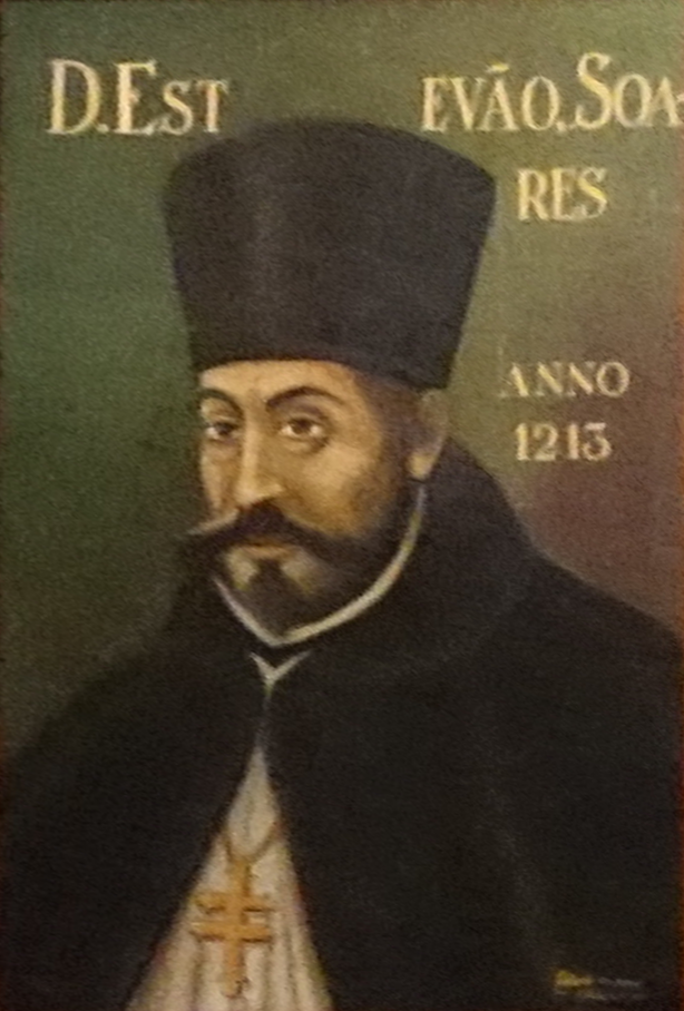 D. Estêvão Soares - Galeria dos Arcebispos de Braga